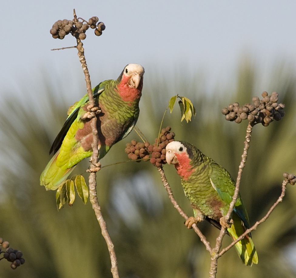 Two Cuban Amazons in Matanzas, Matanzas Province, Cuba.